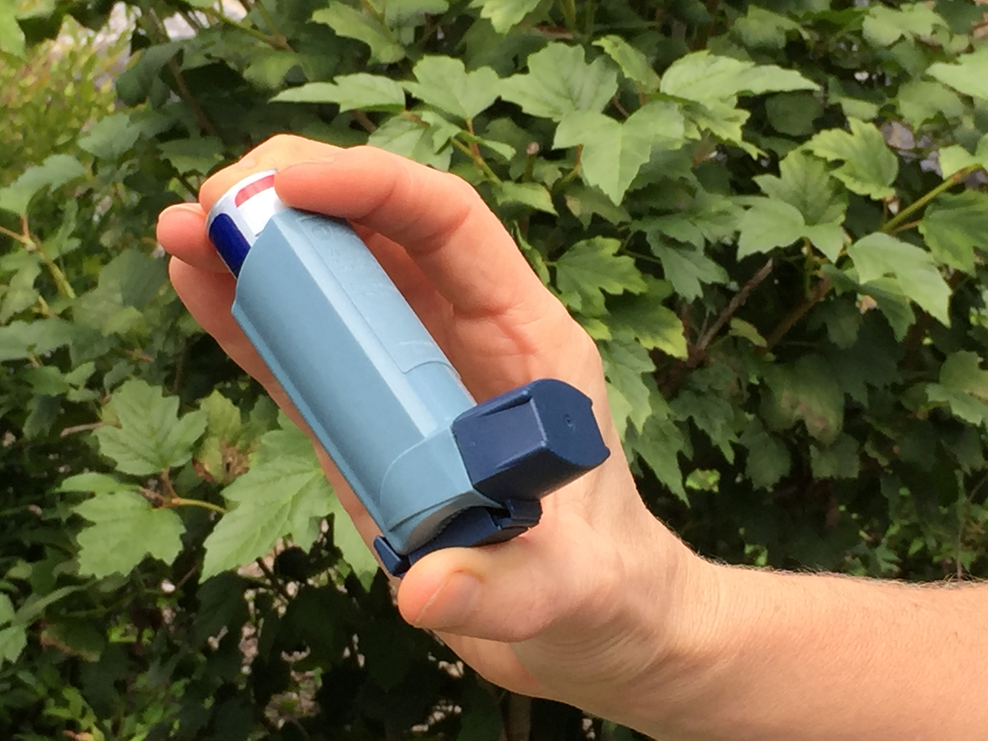 Person holding an asthma inhaler. Credit: NIAID